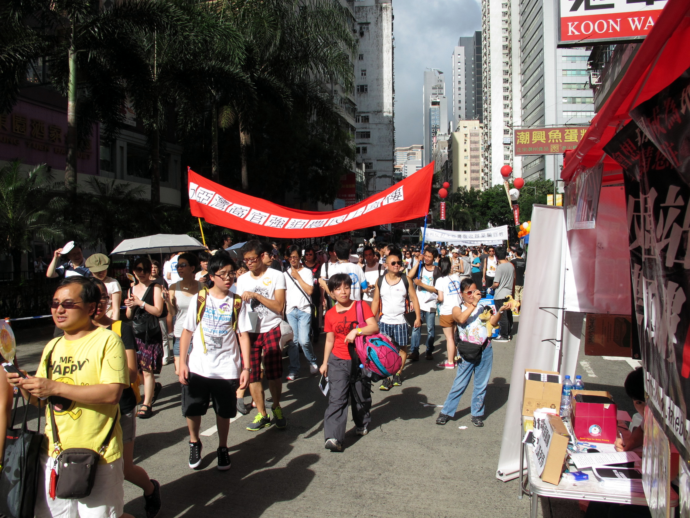 July 1 march in Hong Kong in 2012